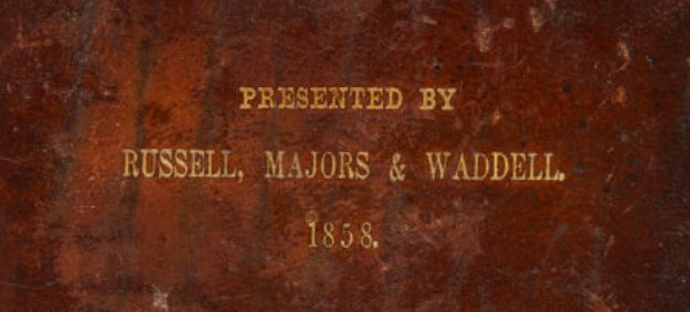 Pony Express 1858 bible - gold lettering